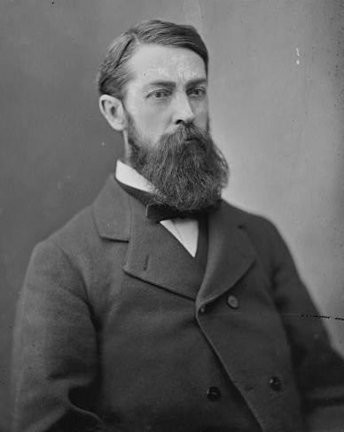 Bayne, Hon. Thos. M. of Pa.